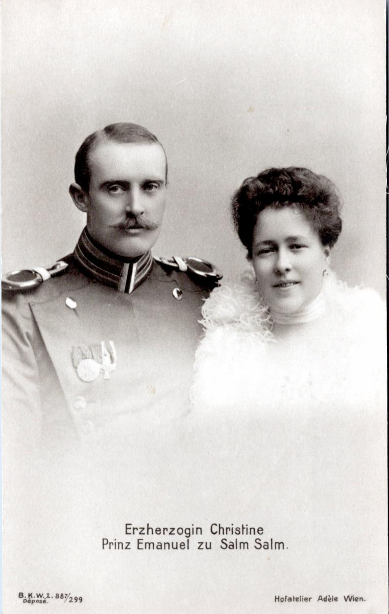 Double portrait of Archduchess Maria Christina of Austria (1879–1962) and her husband Emanuel zu Salm-Salm (1871-1916)